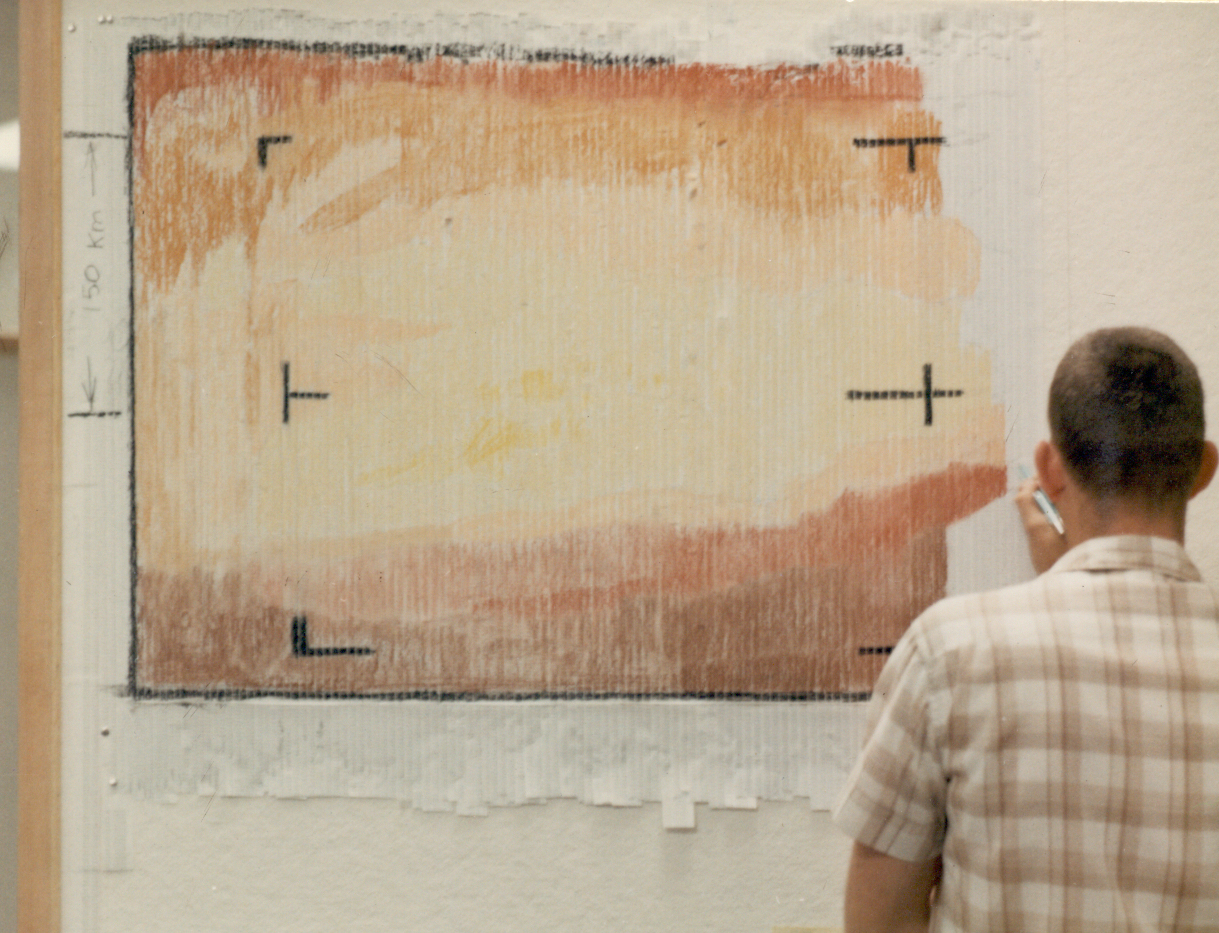 A "real-time data translator" machine converted Mariner 4 digital image data into numbers printed on strips of paper. Too anxious to wait for the official processed image, employees from the Voyager Telecommunications Section attached these strips side by side to a display panel and hand colored the numbers like a paint-by-numbers picture. The completed image was framed and presented to JPL director, William Pickering. Mariner 4 was launched on November 28, 1964 and journeyed for 228 days to the Red Planet, providing the first close-range images of Mars. The spacecraft carried a television camera and six other science instruments to study the Martian atmosphere and surface. The 22 photographs taken by Mariner revealed the existence of lunar type craters upon a desert-like surface. After completing its mission, Mariner 4 continued past Mars to the far side of the Sun. On December 20, 1967, all operations of the spacecraft were ended.